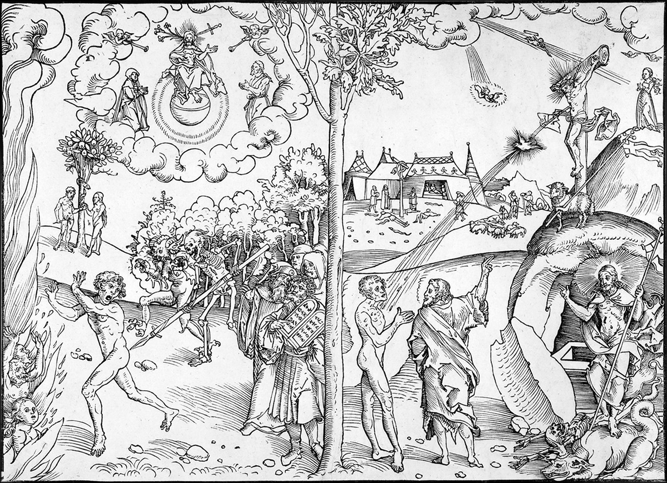 this version without the accompanying Scripture passages; Weimar, Schlossmuseum; London, British Museum